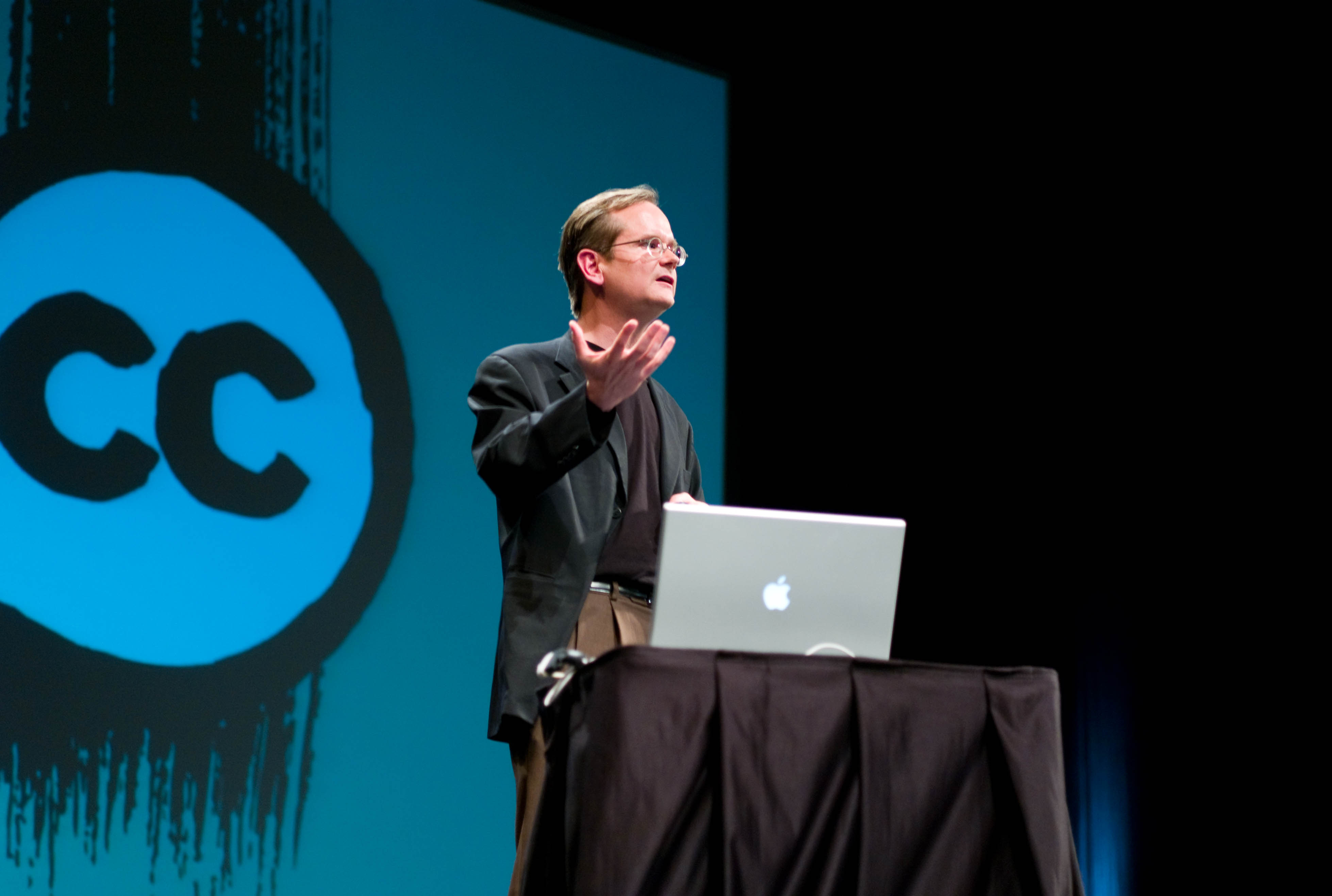 Lawrence Lessig (Giving final talk about Free Culture at Stanford)